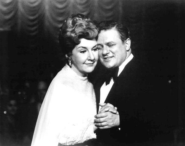 Photo of Maureen Stapleton and Charles Durning from the 1975 made for television film Queen of the Stardust Ballroom.